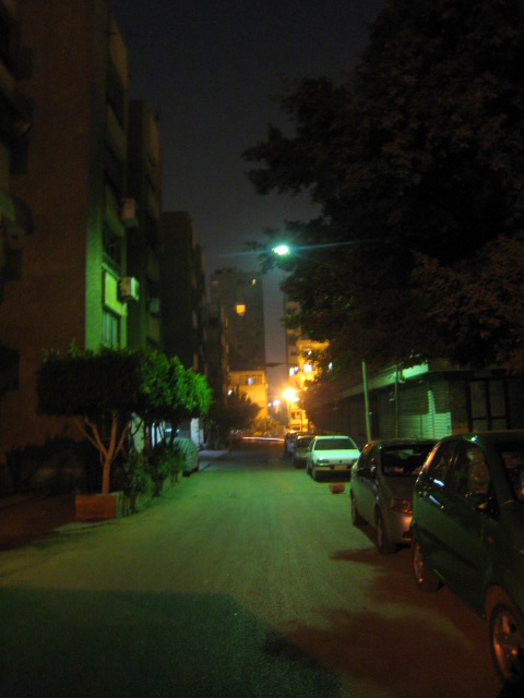 A small Street from Mustafa El-Nahhass Street, Near the 7th District, Nasr City Town